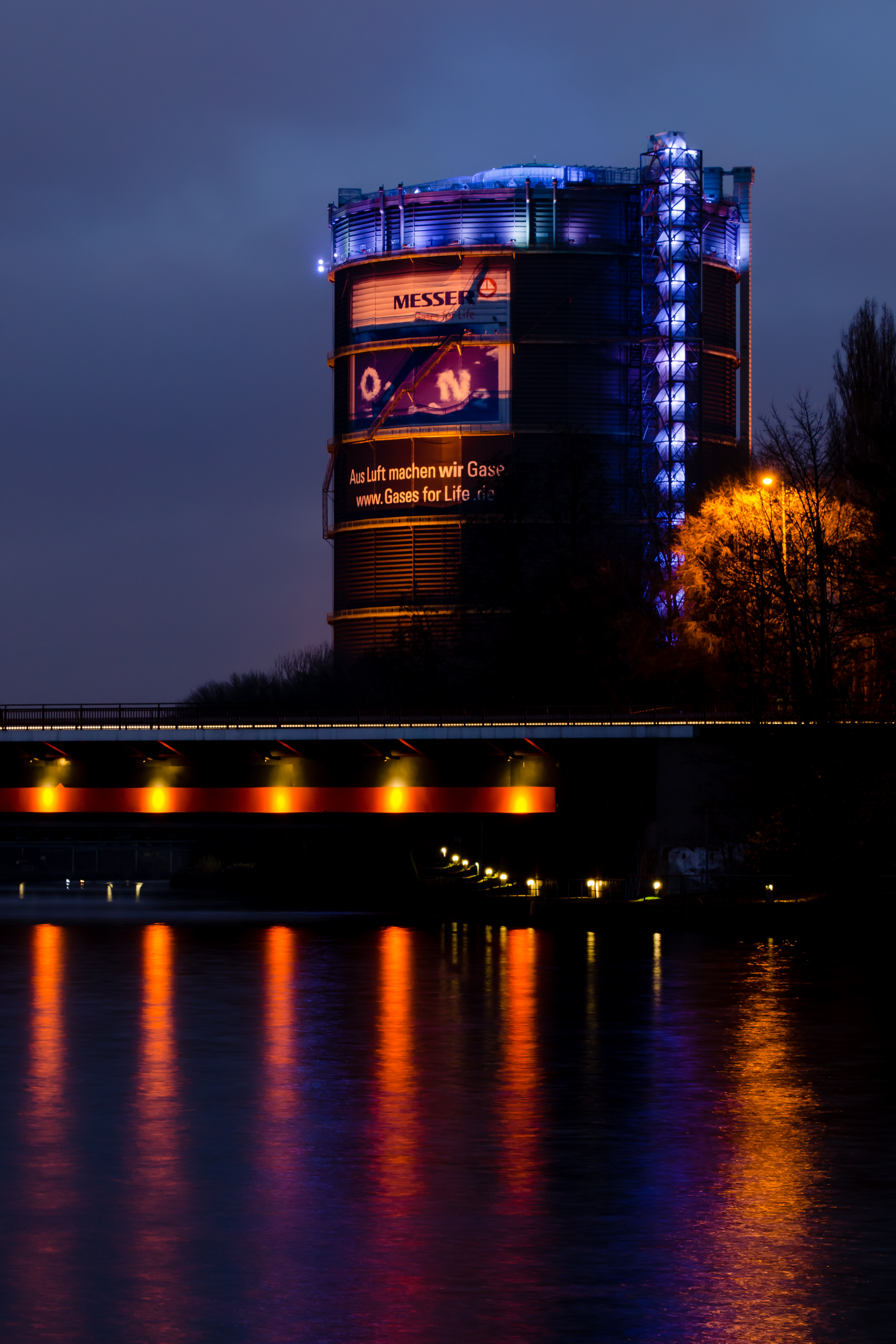 View from Rhine-Herne-Canal onto illuminated gasometer of Oberhausen, Germany